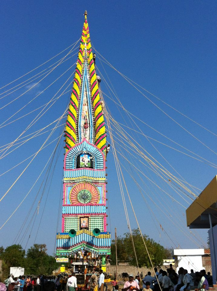 Sivaratri celebrations in Prabhalu